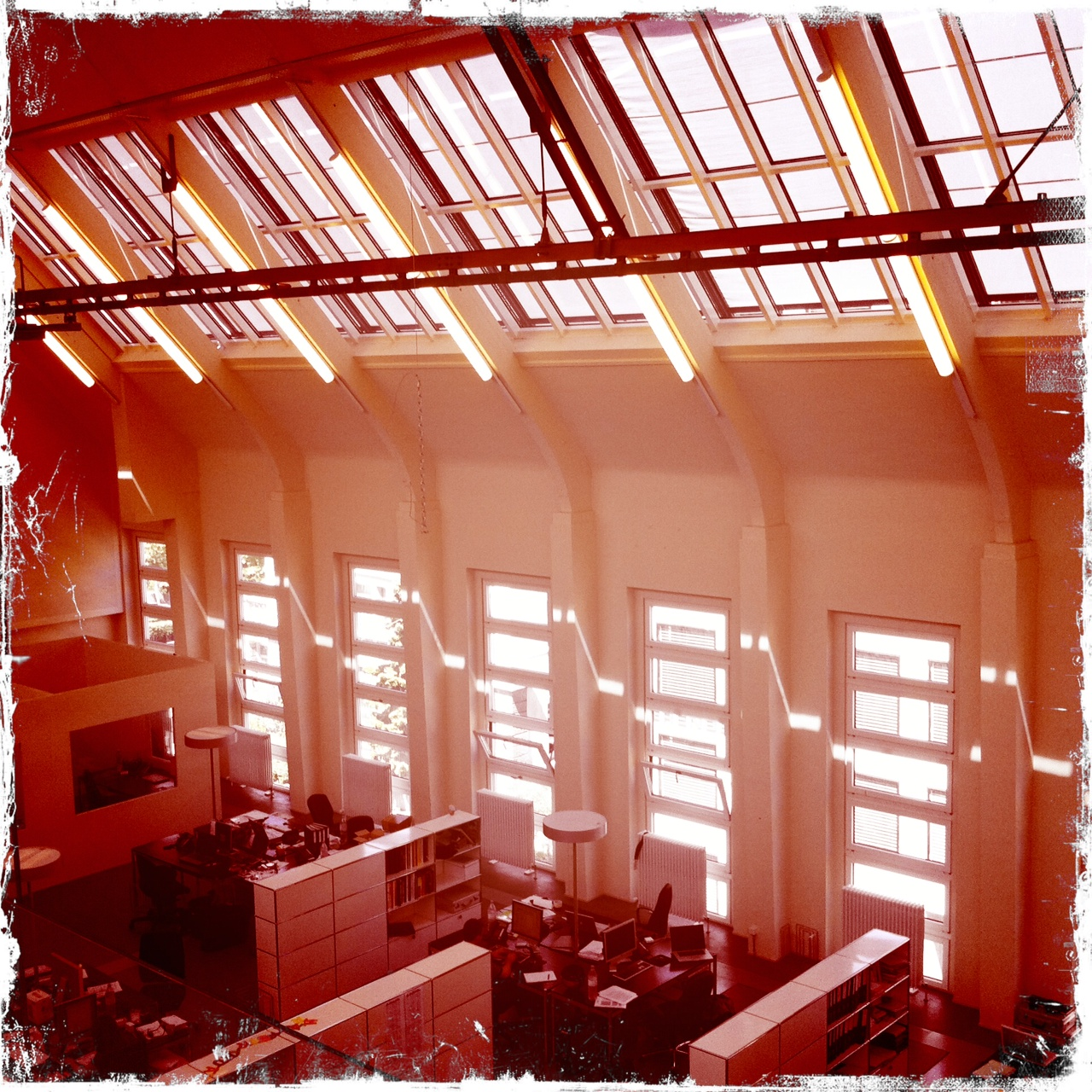 Condor Films Ltd, Zürich